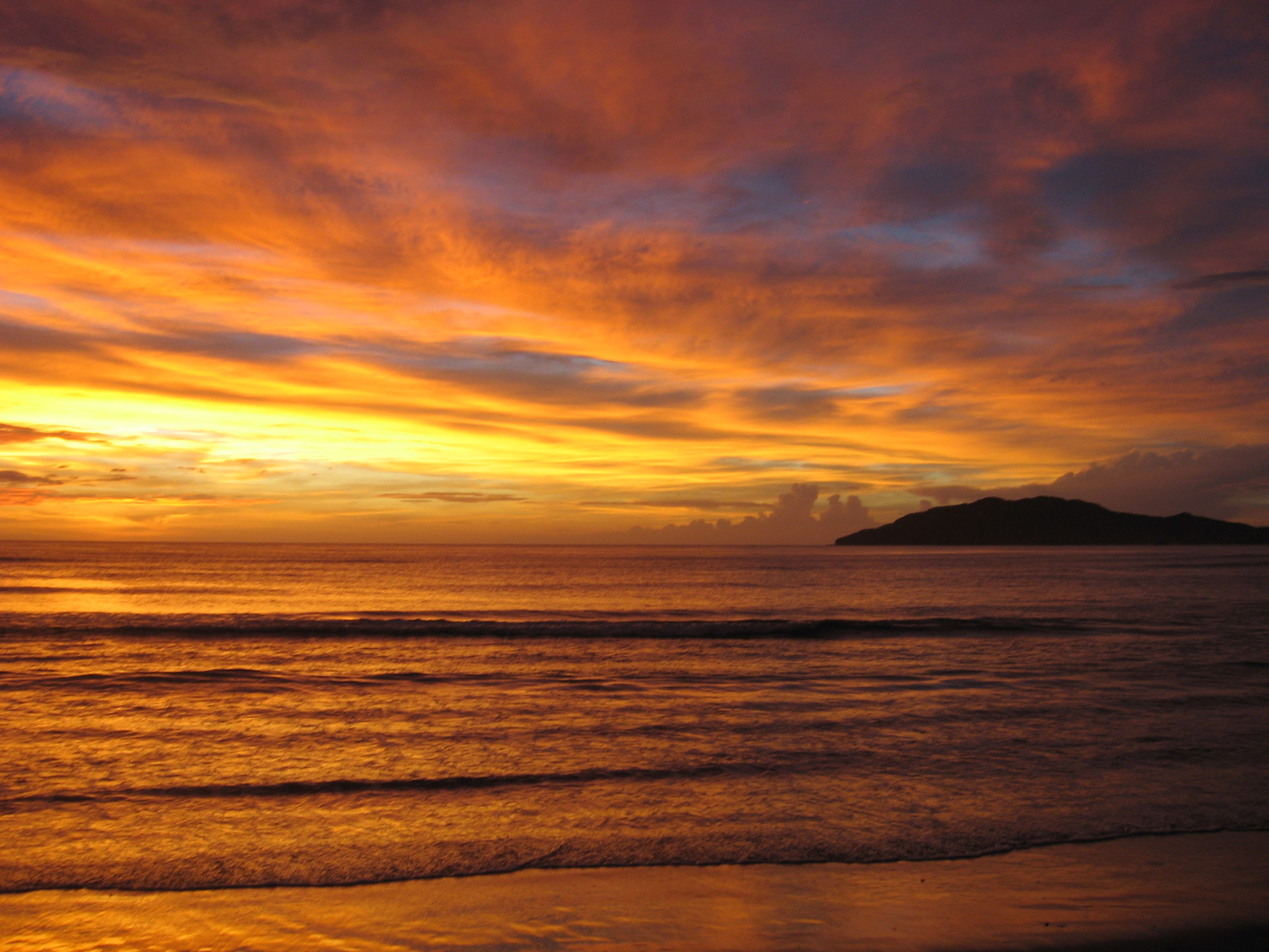 Crimson-orange sunset on Playa Grande in Tamarindo, Costa Rica. In Las Baulas National Marine Park.